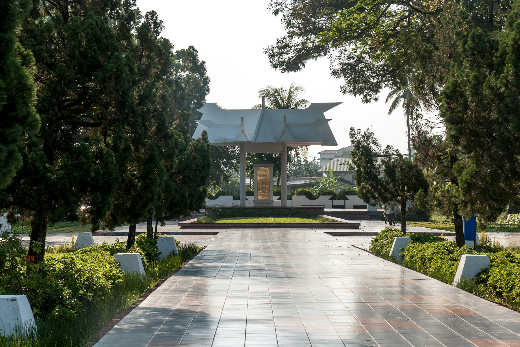 Kg. Petagas, District Putatan: Petagas War Memorial, View from gate to the Memorial